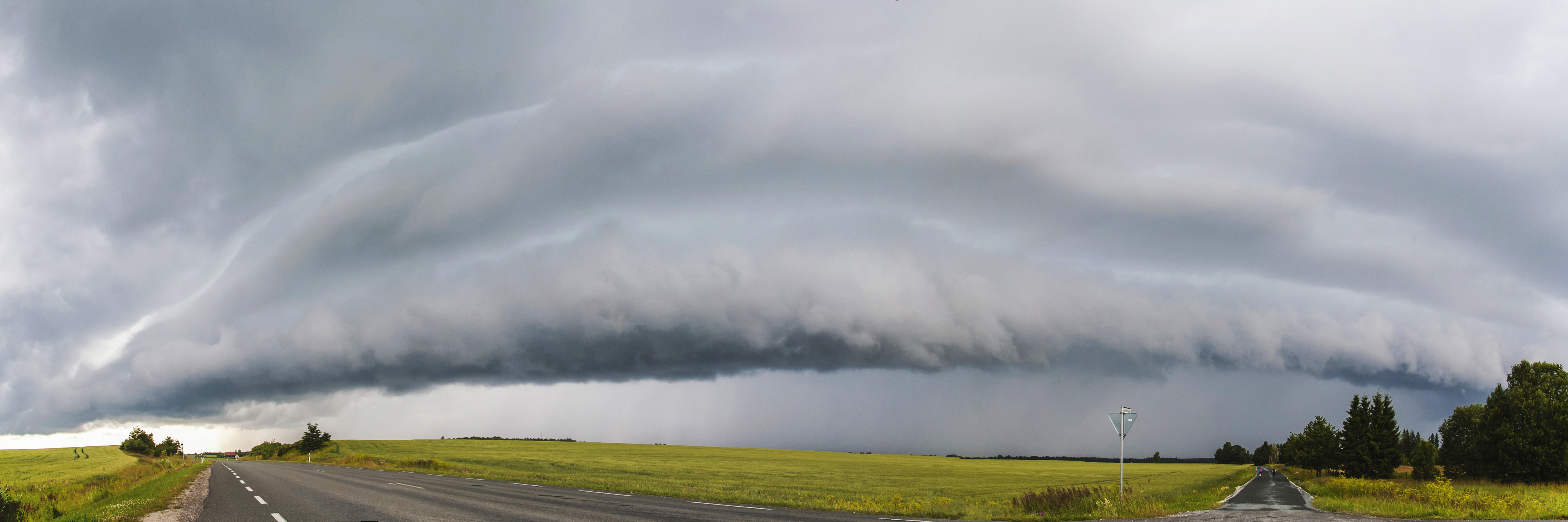 Roll cloud and shelf cloud, both types of arcus cloud, with a thunderstorm near Jõgeva, Estonia.